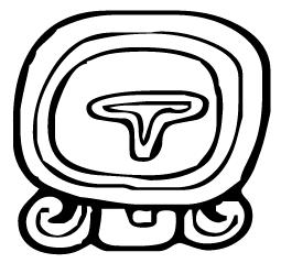 Maya:glyph:logogram:calendric:Tzolkin:Day02:Ik:std+suffix:v01. Img created by CJLL Wright.